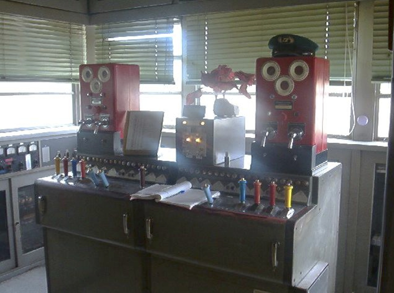 Railway electrical interlocking machine